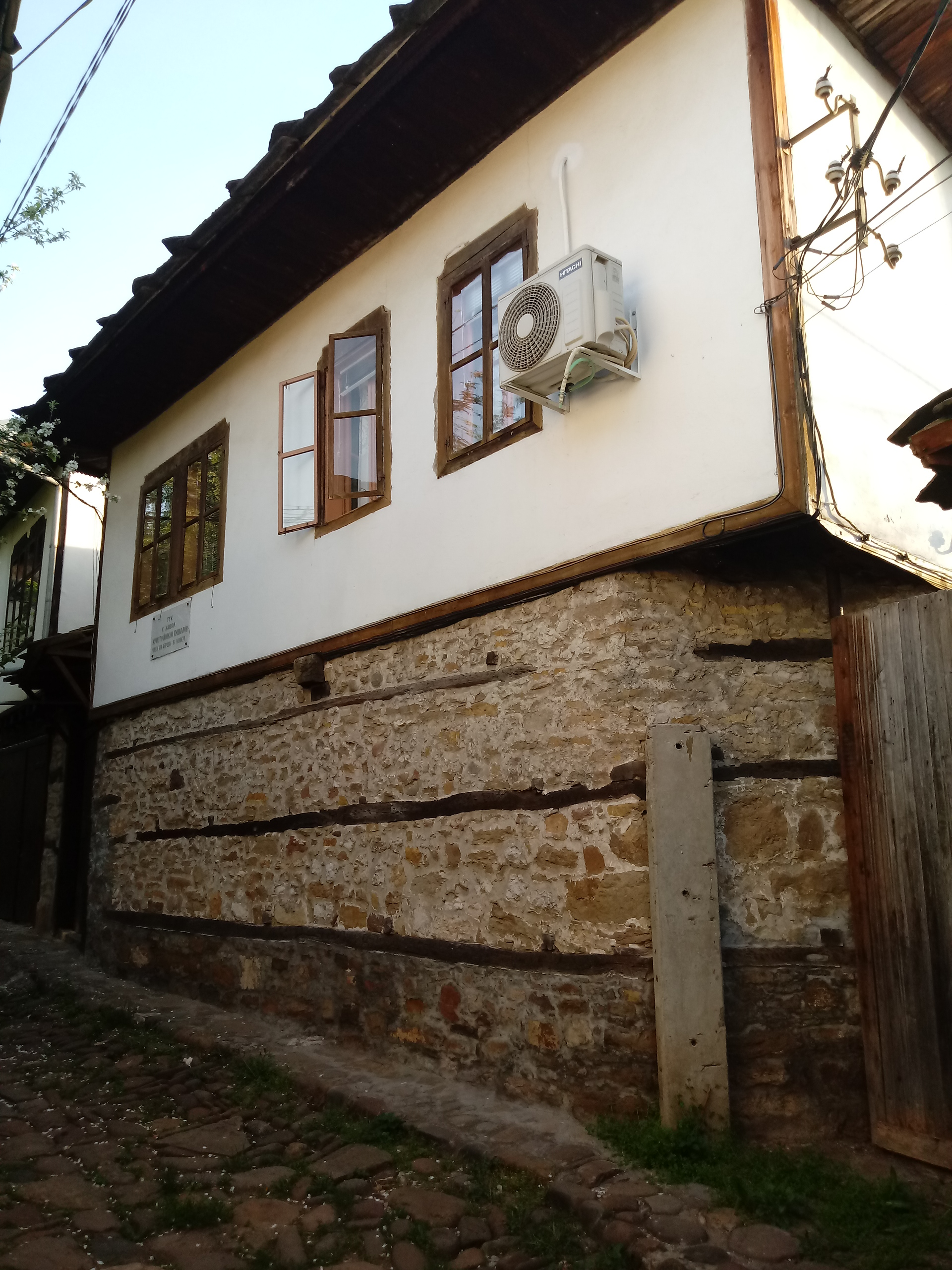 Hristo Yovkov Pushkarov home with memorial plaque, Lovech